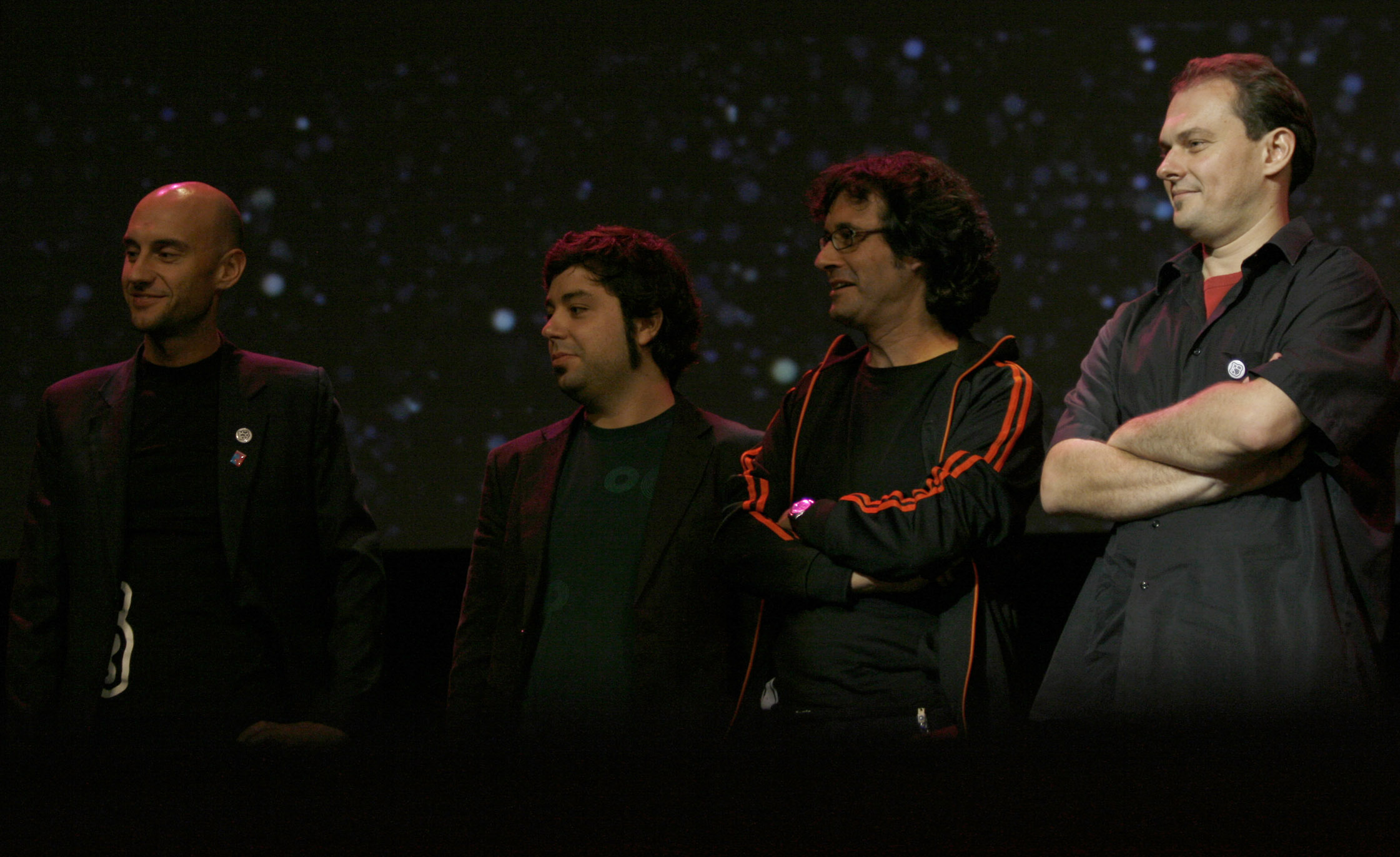 Sergi Jordà, Günter Geiger, Martin Kaltenbrunner und Marcos Alonso, creators of the Reactable, winners of the 'Golden Nica' in the category 'Digital Musics' of the Prix Ars Electronica 2008 (Brucknerhaus, Linz).